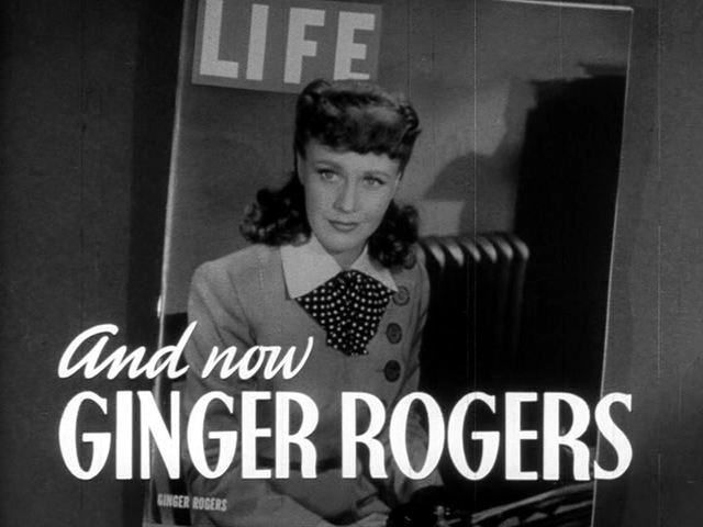 Ginger Rogers as Kitty Foyle, from the trailer to the film Kitty Foyle